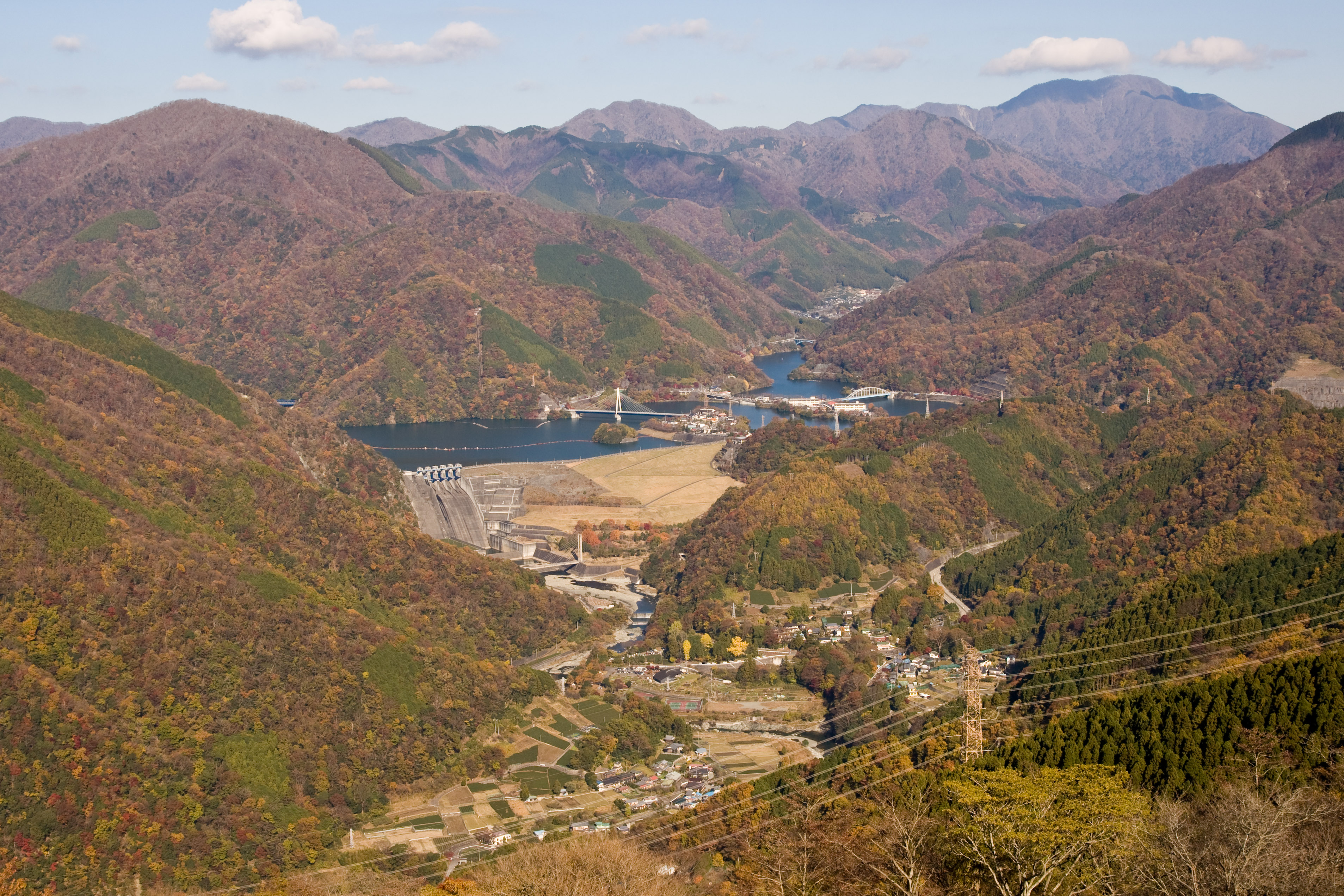 Lake Tanzawa, Yamakita Town, Kanagawa Pref., Japan.